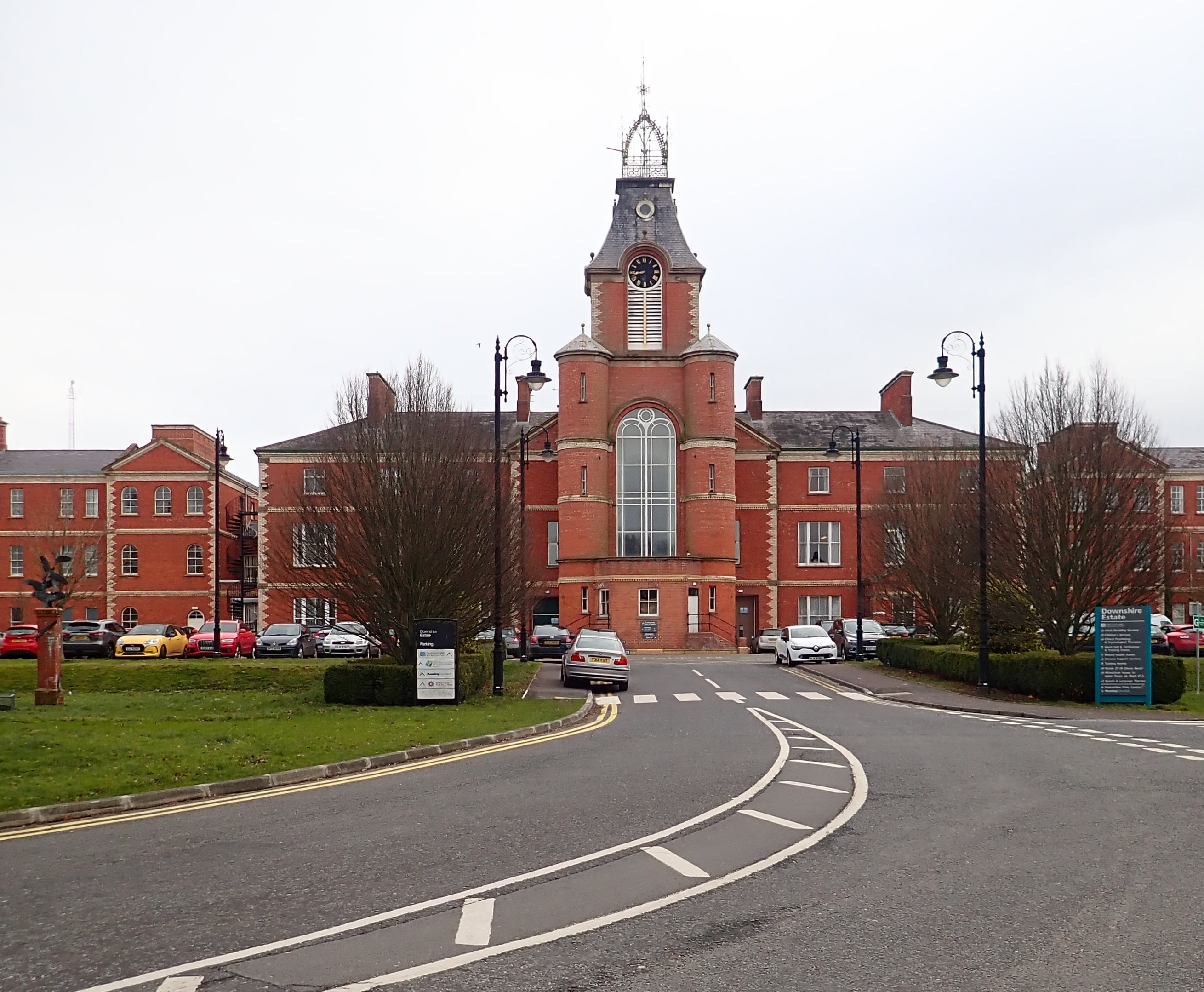 The clock tower of the former Downshire Mental Hospital